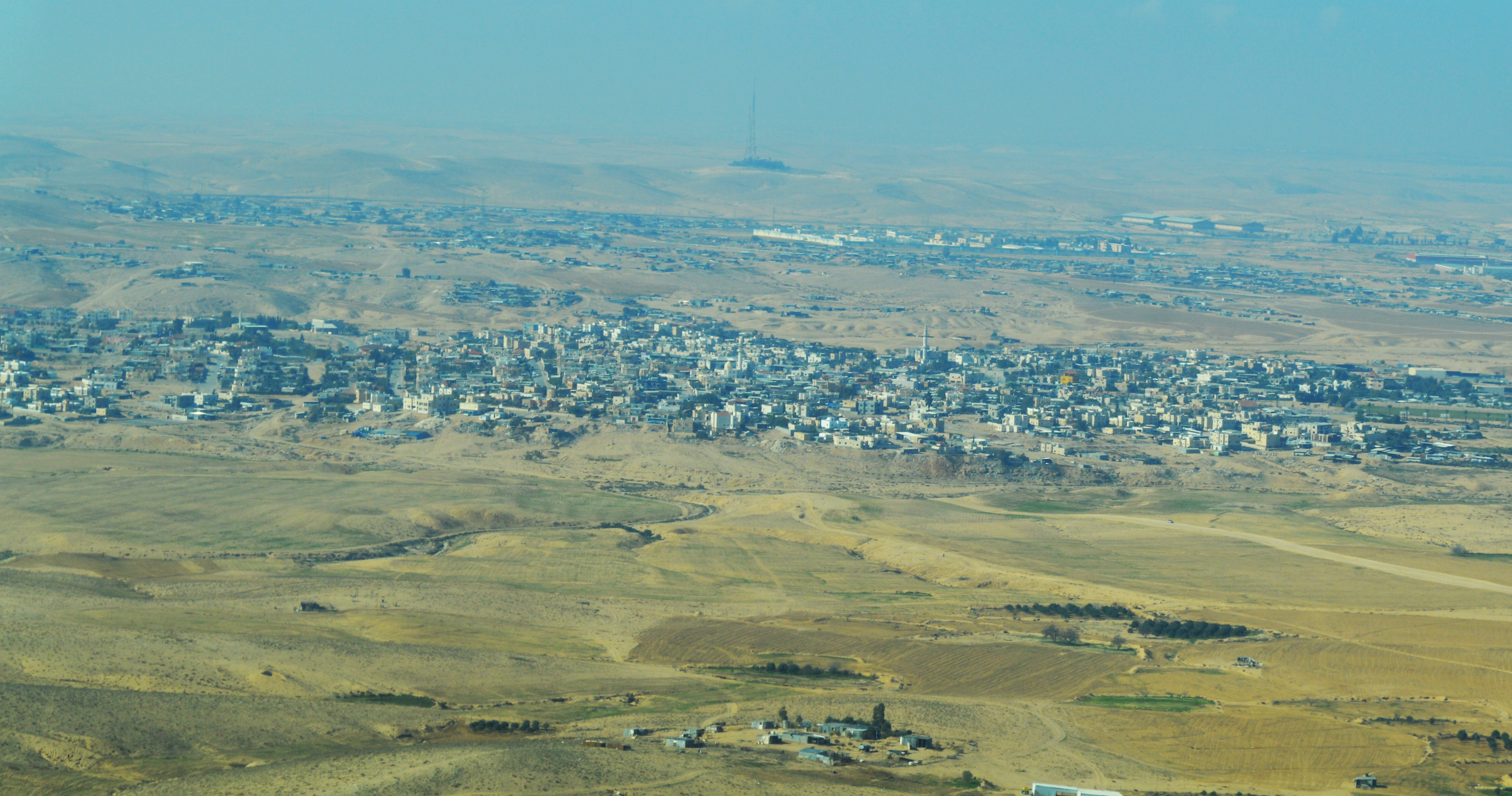 Segev Shalom Aerial View